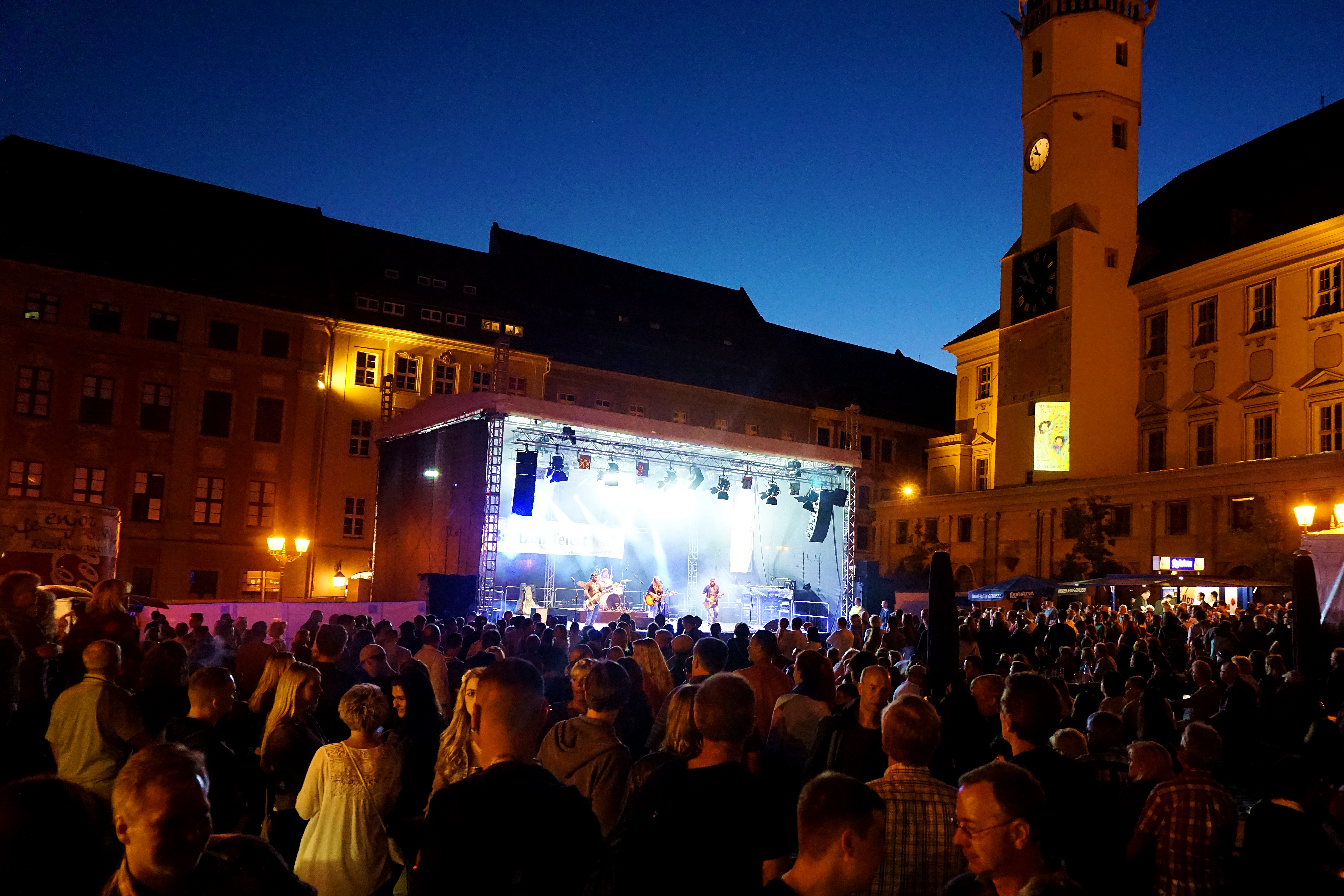 Joon Wolfsberg Live at Stage in Bautzen in 2017.